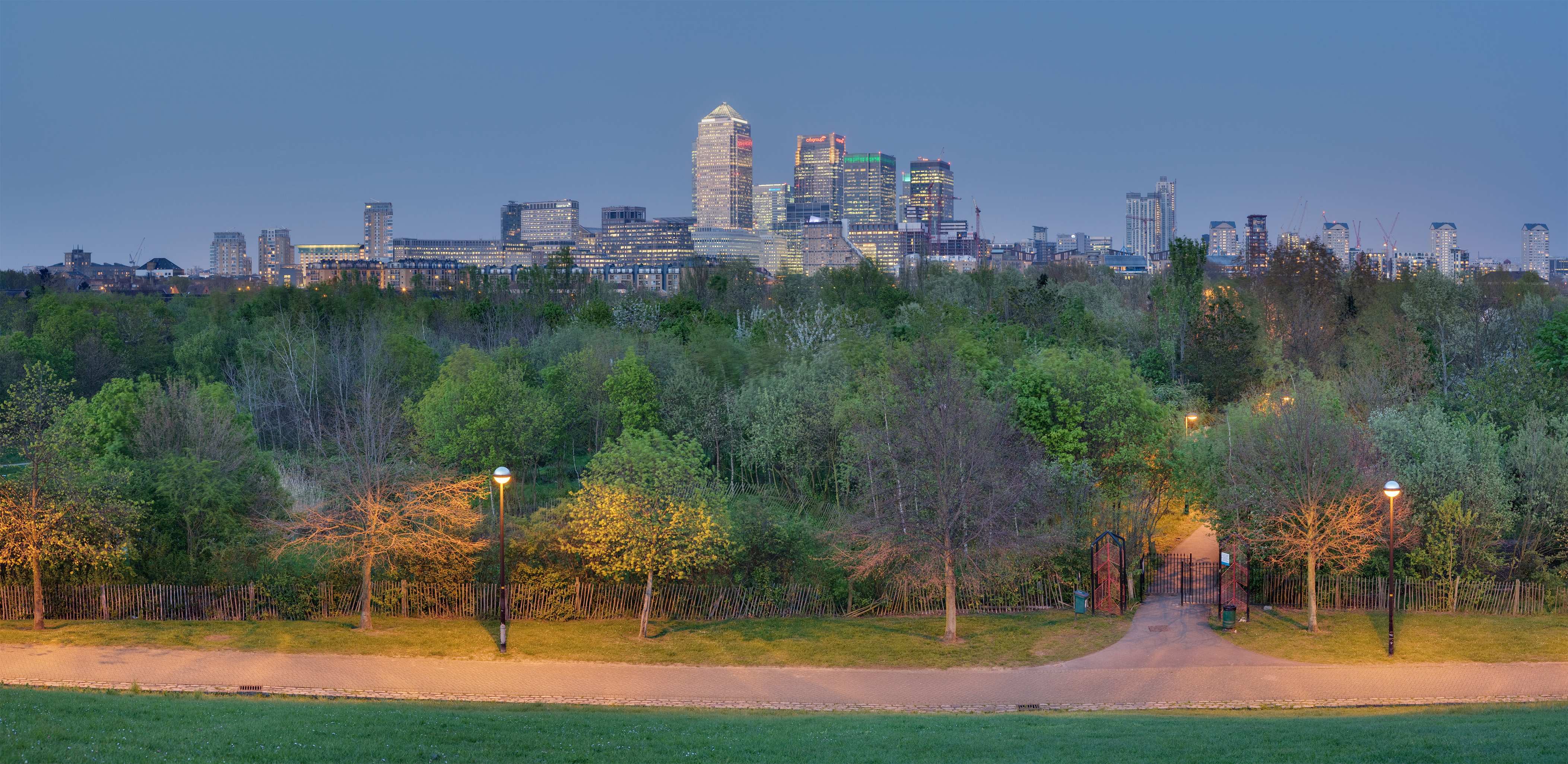 A panoramic view of the Stave Hill Ecological Park in Rotherhithe, London. In the background is Canary Wharf and Isle of Dogs.